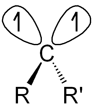 Description: General structure of triplet carbenes. Source = Selfmade. Date = 3 June 2006. Made with ChemDraw.